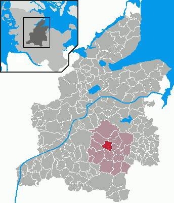 Locator maps of municipalities in Schleswig-Holstein - District Rendsburg-Eckernförde